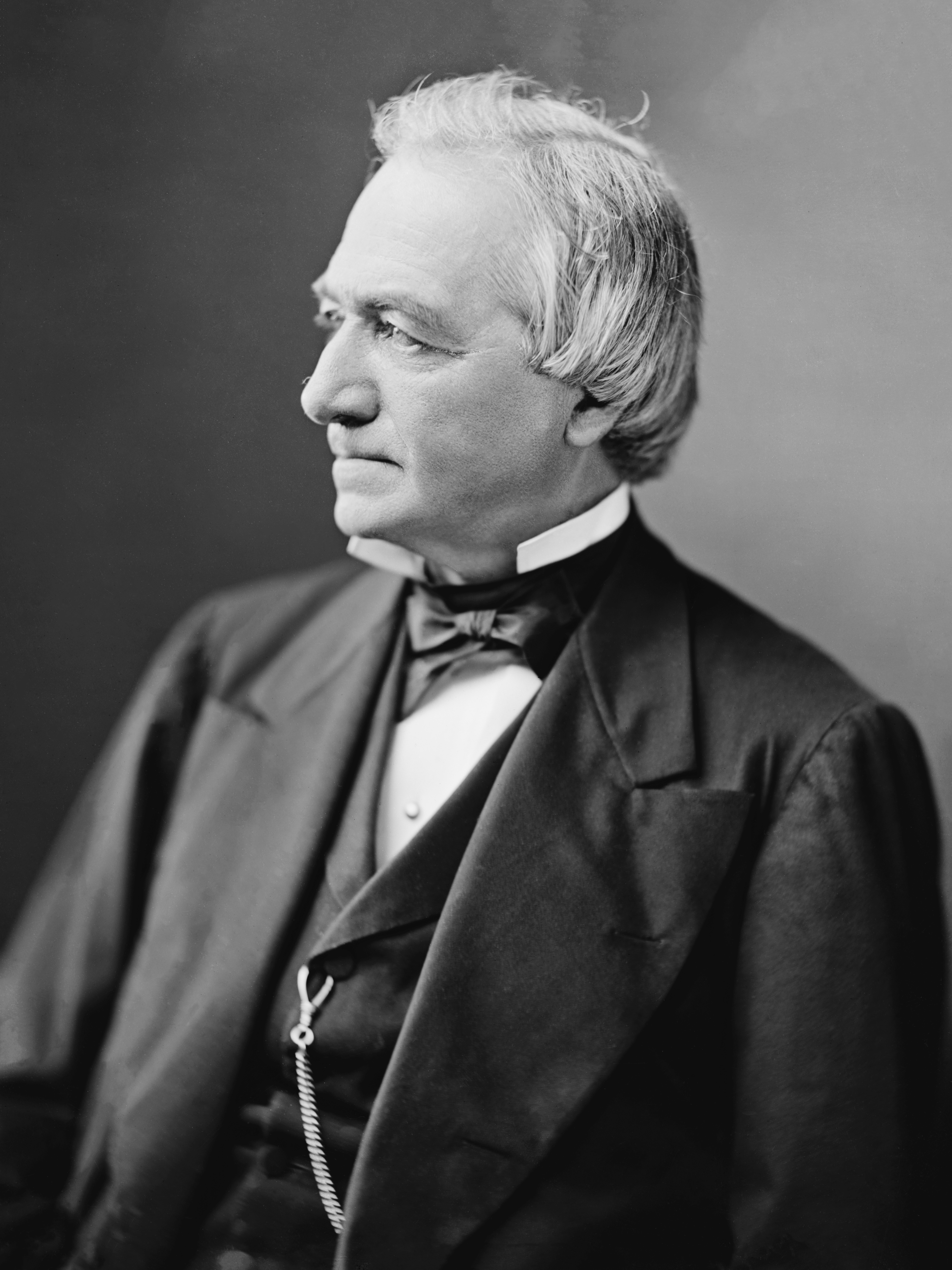 Joseph Philo Bradley. Library of Congress description: "Judge Joseph Bradley".